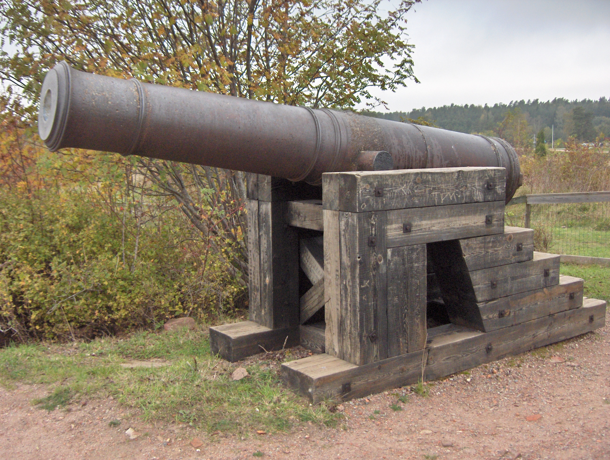 Canon in Bomarsund fortress in Åland.